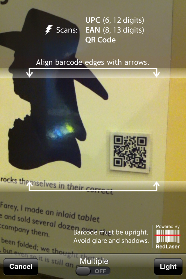 Derby Museum are experimenting with labelling their awesome exhibits with QR codes that take the user to the corresponding Wikipedia article. This is a screenshot of the RedLaser iPhone app scanning one of the codes at the Museum.